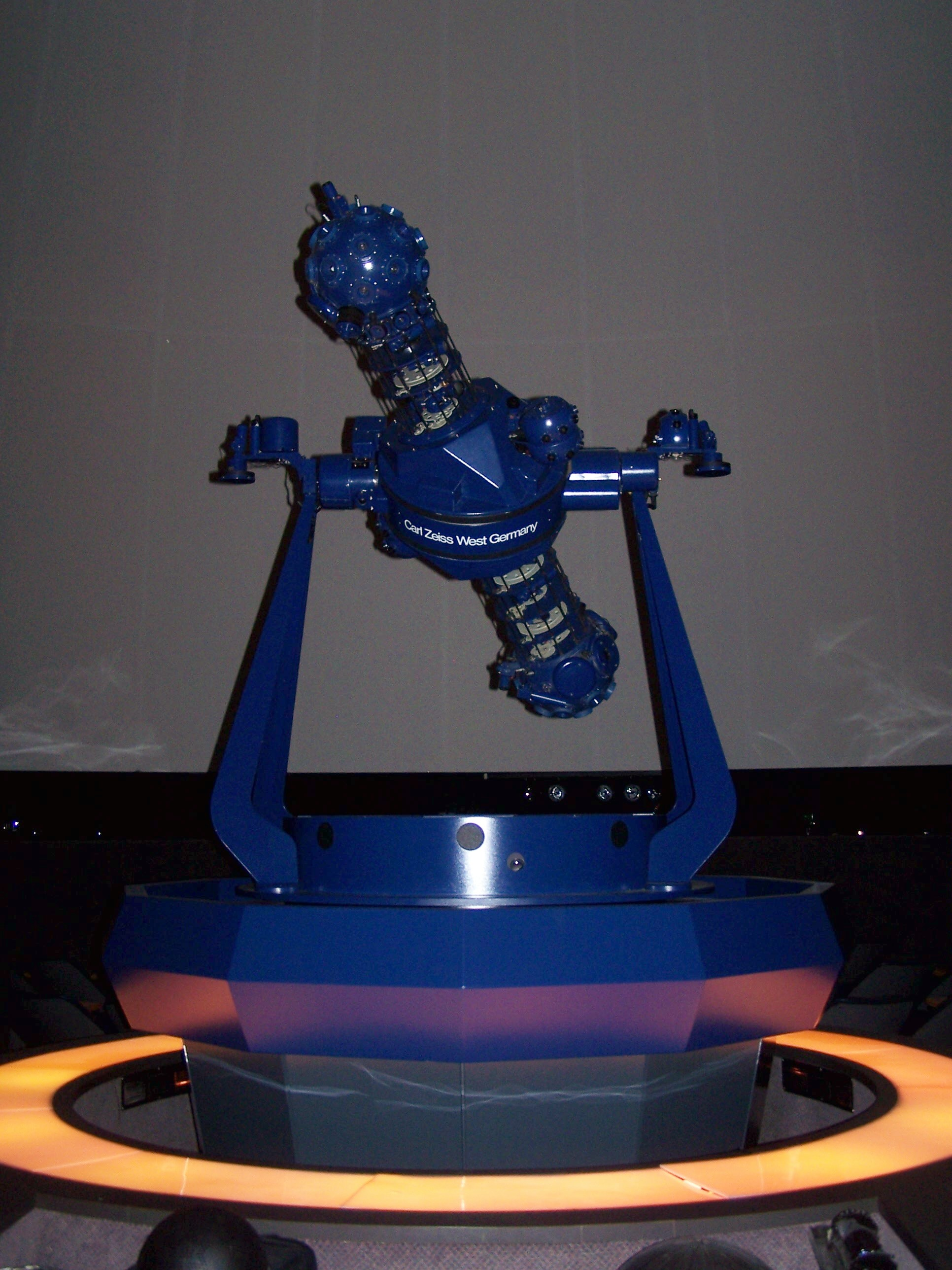 Image Photographed by Pamela Friese, Artist/Photographer for the William M. Staerkel Planetarium Zeiss M1015 Star Projector installed at the William M. Staerkel Planetarium at Parkland College.